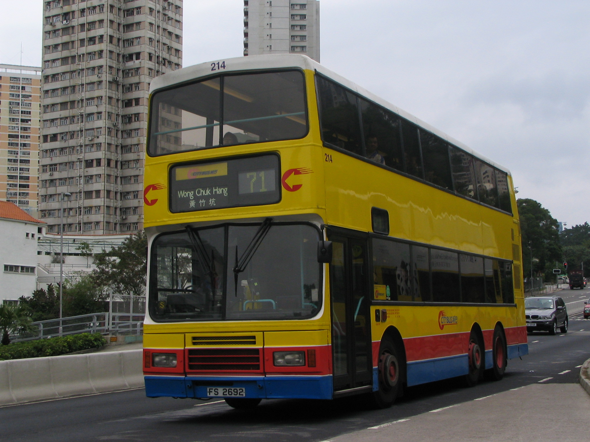 Citybus Hong Kong Leyland Olympian 214 FS2692 is seen passing the Wah Fu Estate on the Pok Fum Lam Road whilst operating on the 71.